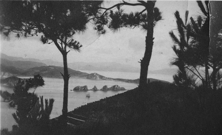 Five Tigers Rock, Sharp Peak Island, China, ca.1925-1935 landscape of Five Tigers Rock taken from Beacon Hill, Sharp Peak Island. A ship can be seen in the distance.; This photo is from the papers of Emily Susan Hartwell, who was an American Board of Commissioners for Foreign Missions missionary stationed in Foochow, Fukien, from 1884.